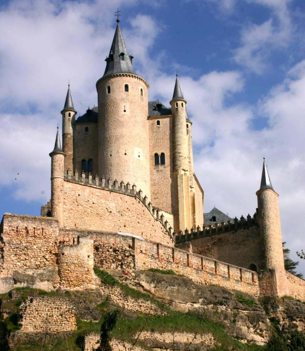 View of the Alcazar, Segovia, Spain.